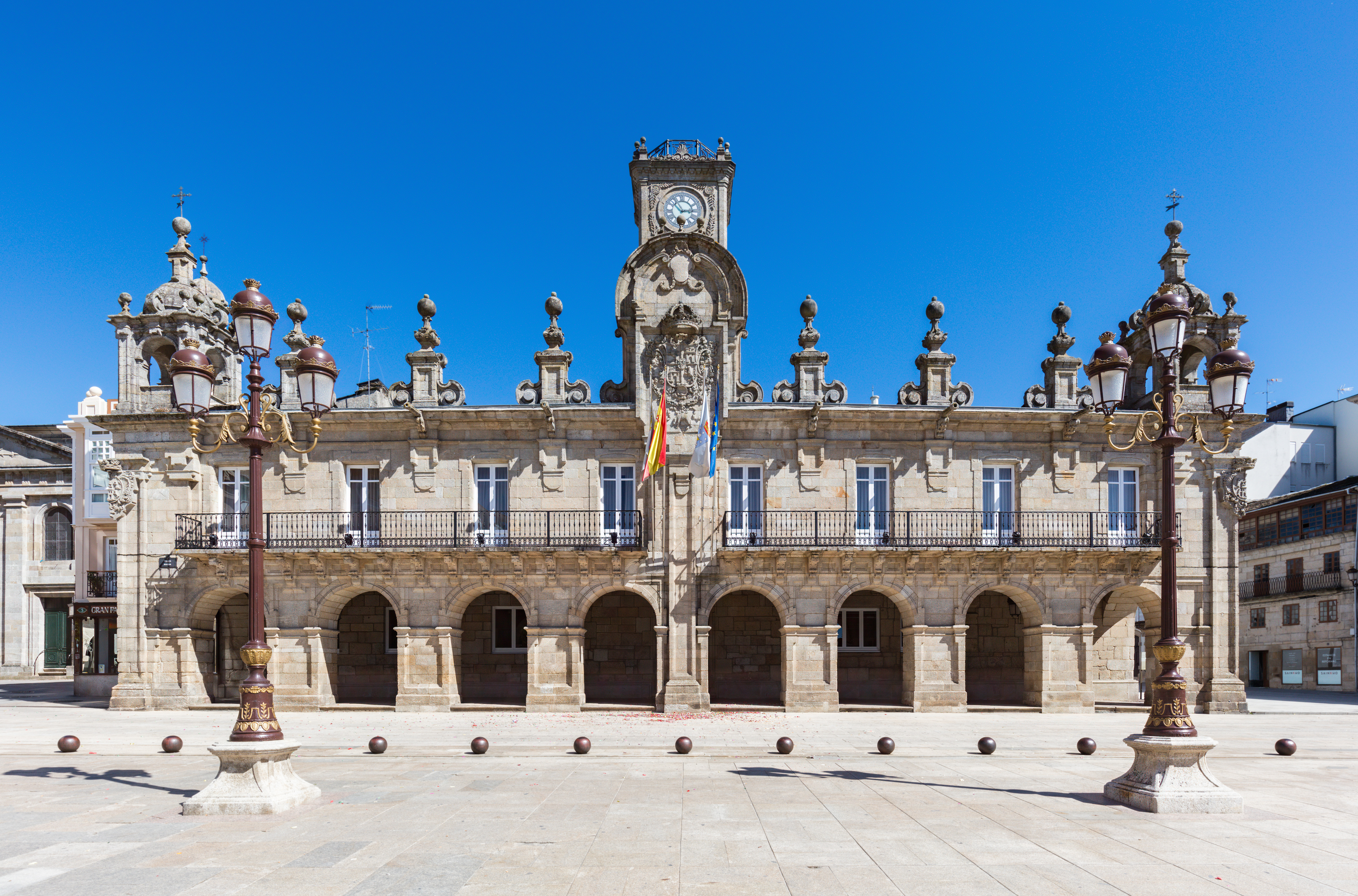 Town hall, Lugo, Spain